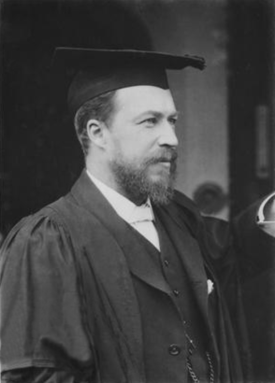 Charles Harford Lloyd (Thornbury, 16 October 1849 – Slough, 16 October 1919) was an English composer and organist.